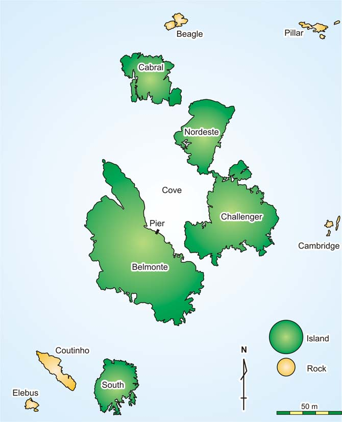 Map of Saint Peter Saint Paul Islets, after Motoki et al. (2007). See the correspondeing Wikipedia page for the detailed reference information.